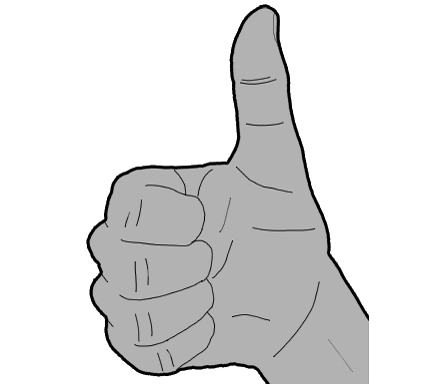 Dive sign: Up